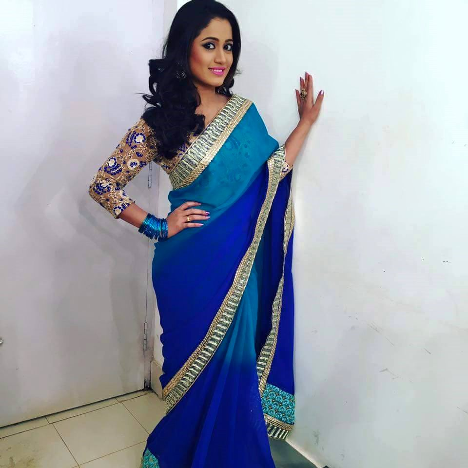 Picture taken of Elina Samantray during public visit